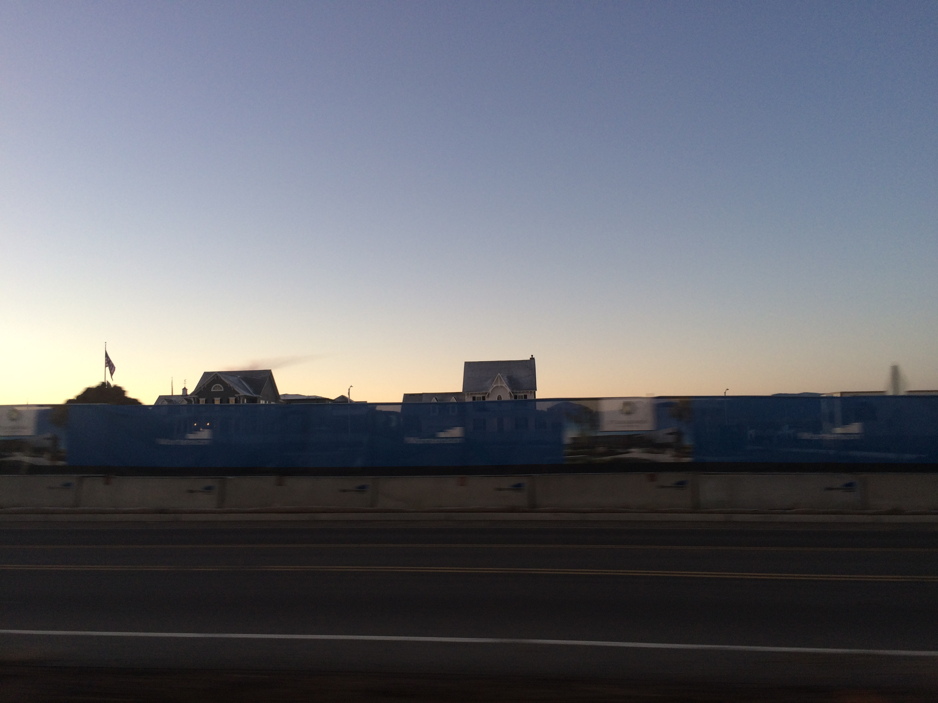 A picture of western sterling ranch